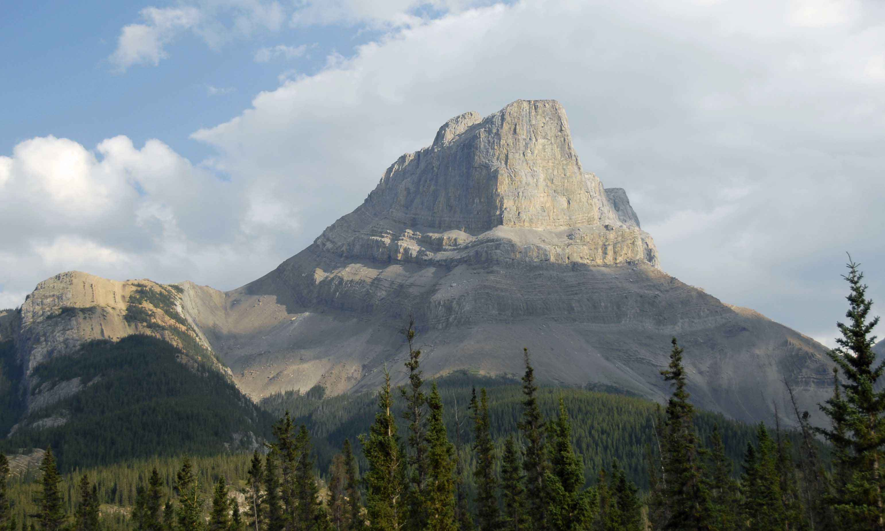 Image title: View of a peak in the Canadian rockies Image from Public domain images website